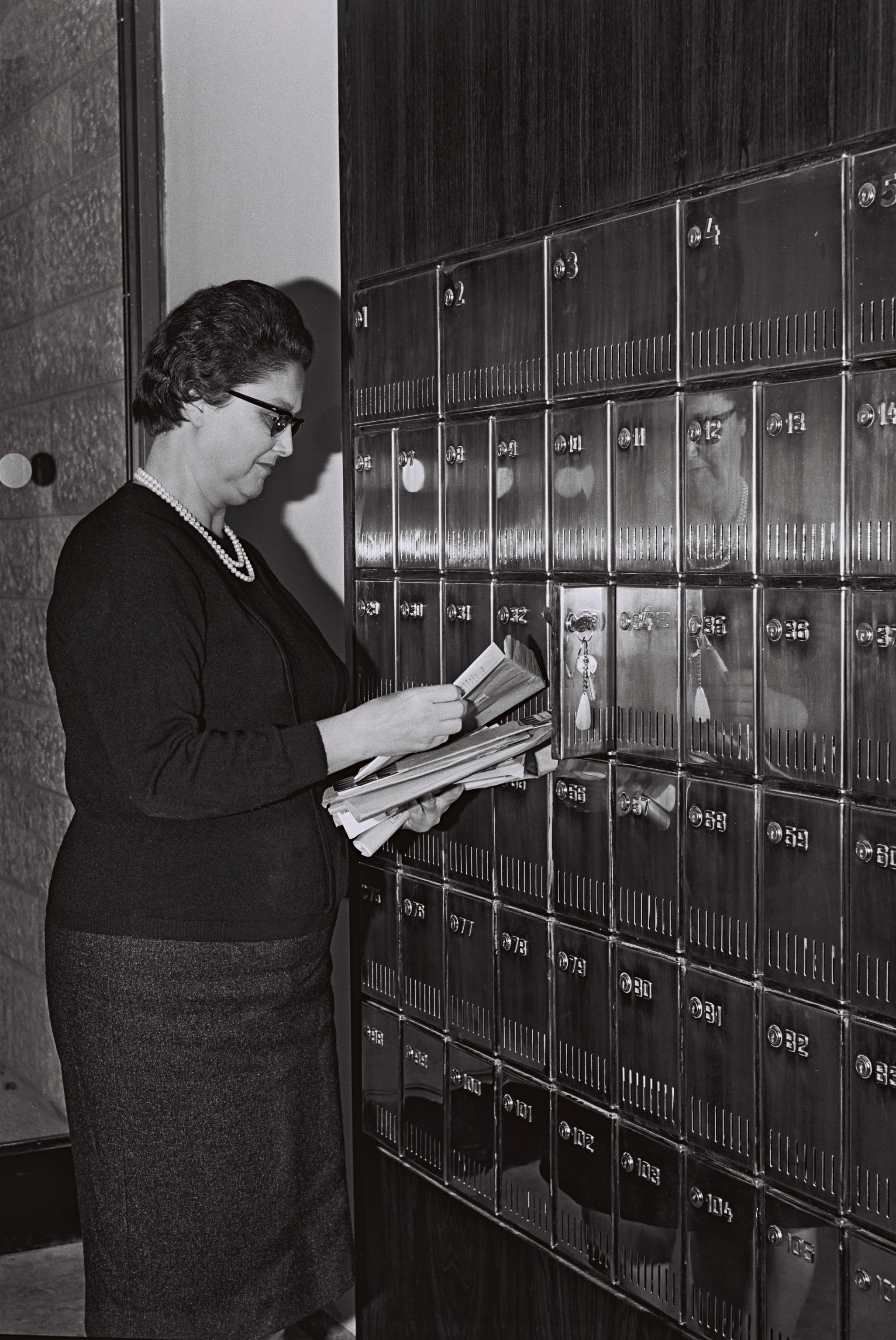 M.K. Mathilda Gez collecting mail from her mail box in the Knesset building in Jerusalem.